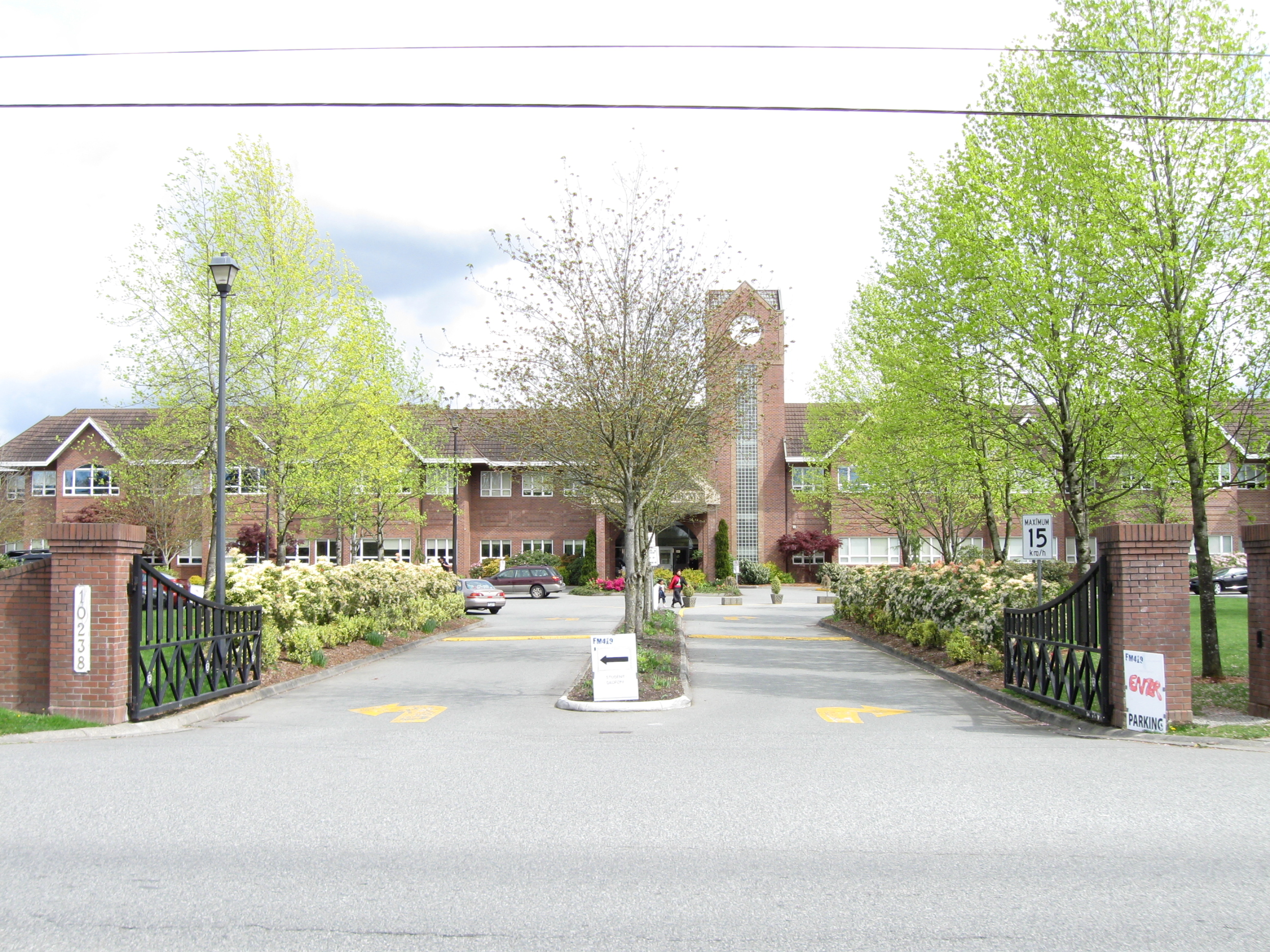 This is an East facing view of the main entrance to the imposing Pacific Academy Christian secondary school at 10238 168 Street in Surrey, BC, Canada.